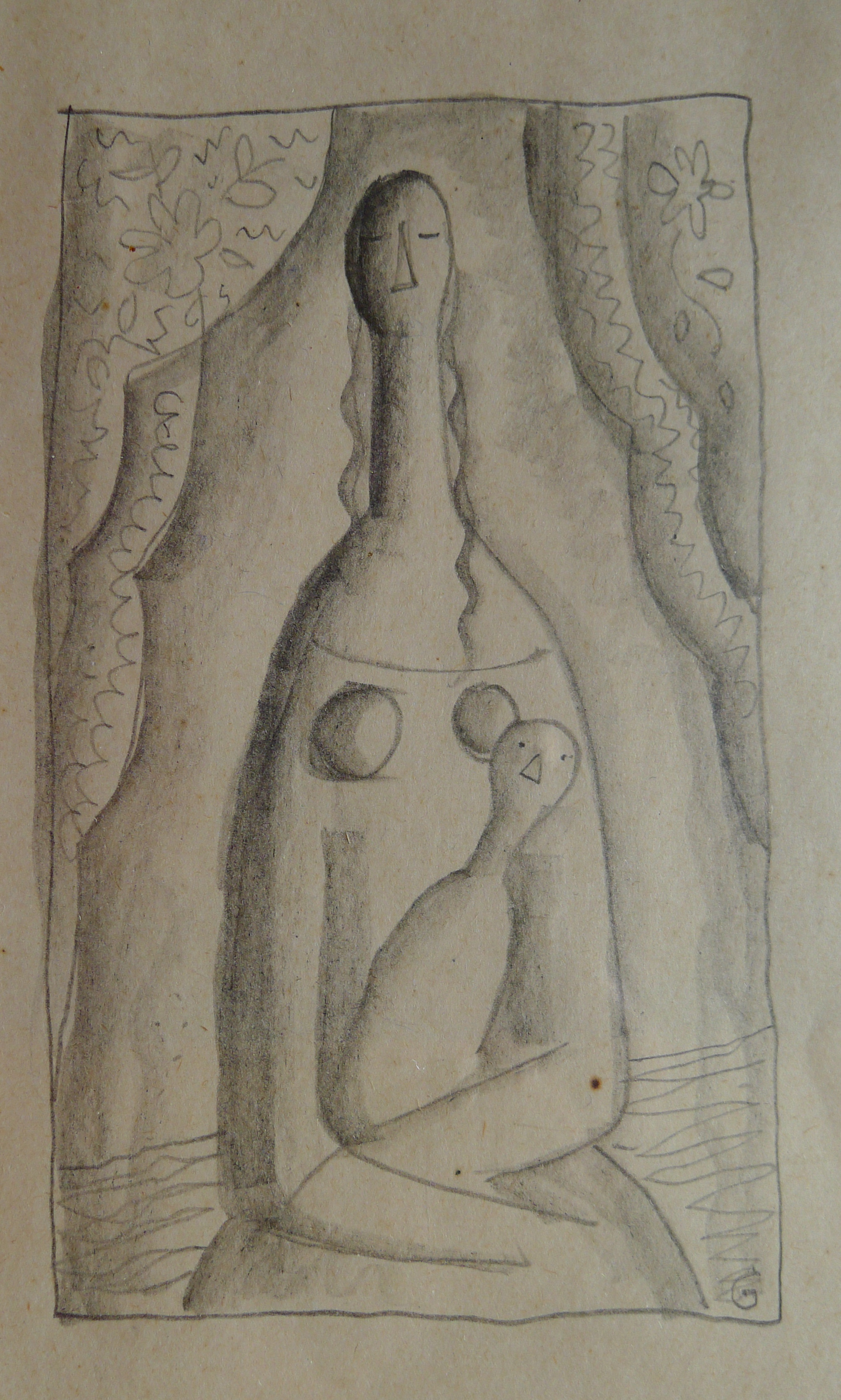 Mikulas Galanda